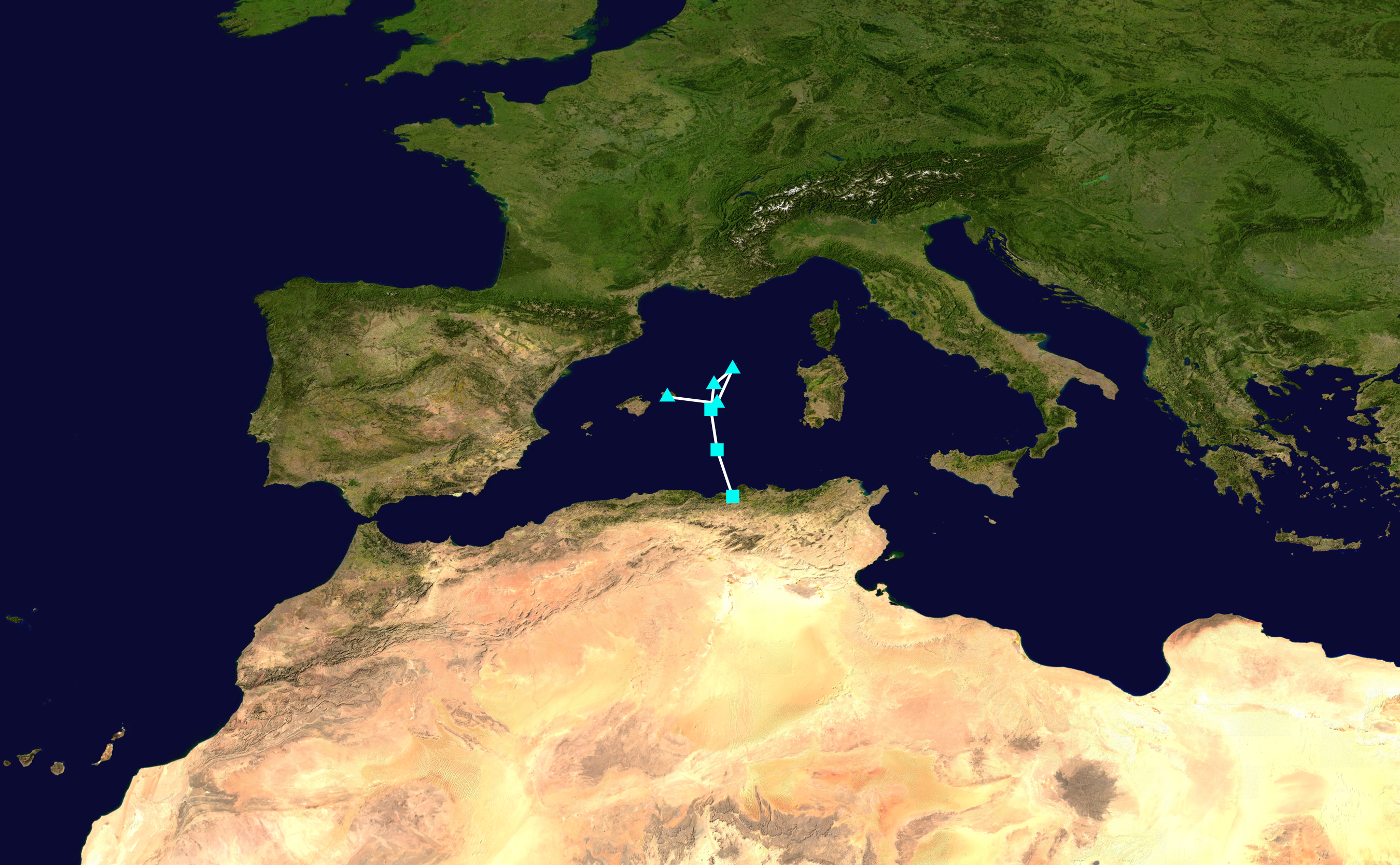 Track map of Storm Bernardo of the 2019-20 European windstorm season. The points show the location of the storm at 6-hour intervals. The colour represents the storm's maximum sustained wind speeds as classified in the Saffir–Simpson scale (see below), and the shape of the data points represent the nature of the storm, according to the legend below. Saffir–Simpson scale Tropical depression≤38 mph≤62 km/h Category 3111–129 mph178–208 km/h Tropical storm39–73 mph63–118 km/h Category 4130–156 mph209–251 km/h Category 174–95 mph119–153 km/h Category 5≥157 mph≥252 km/h Category 296–110 mph154–177 km/h Unknown Storm type Tropical cyclone Subtropical cyclone Extratropical cyclone / Remnant low / Tropical disturbance / Monsoon depression